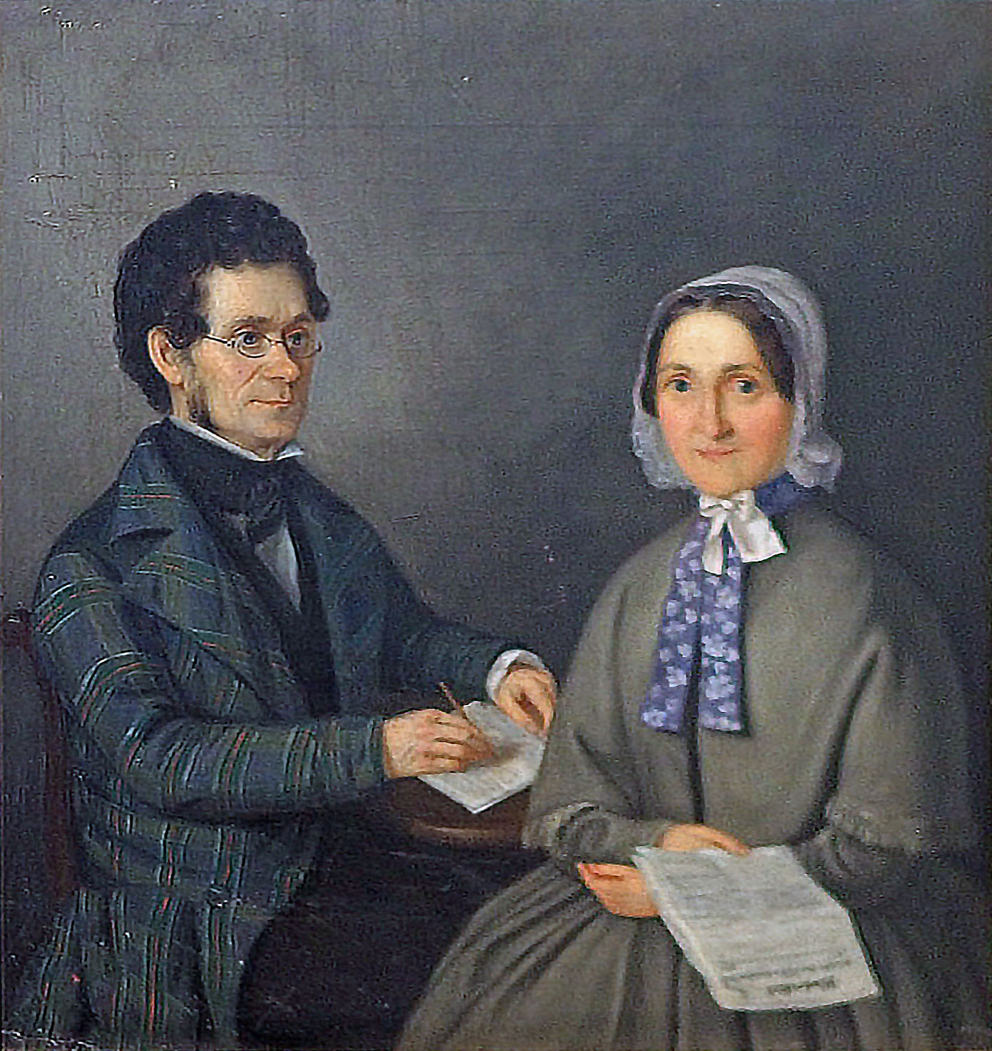 Georg Ritter (1795-1854) and his wife Friederike Barbara (1788-1849)